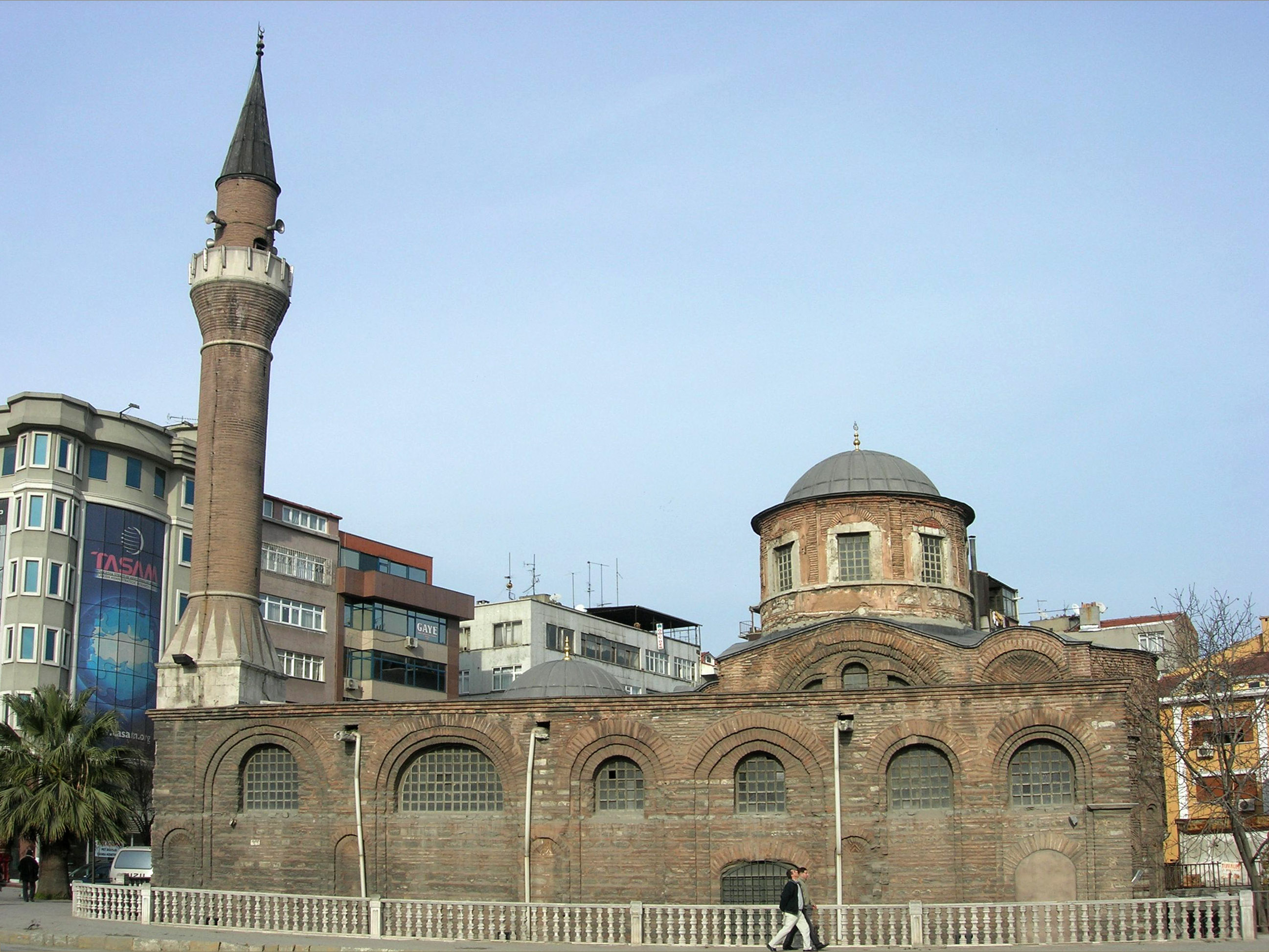 The former Church of the monastery of Constantine Lips( today mosque of Fenari Isa) in Istanbul viewed from S